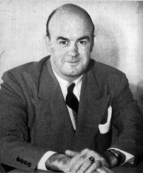 Mike Milligan, head coach of the Pitt Panthers from 1947-1949.